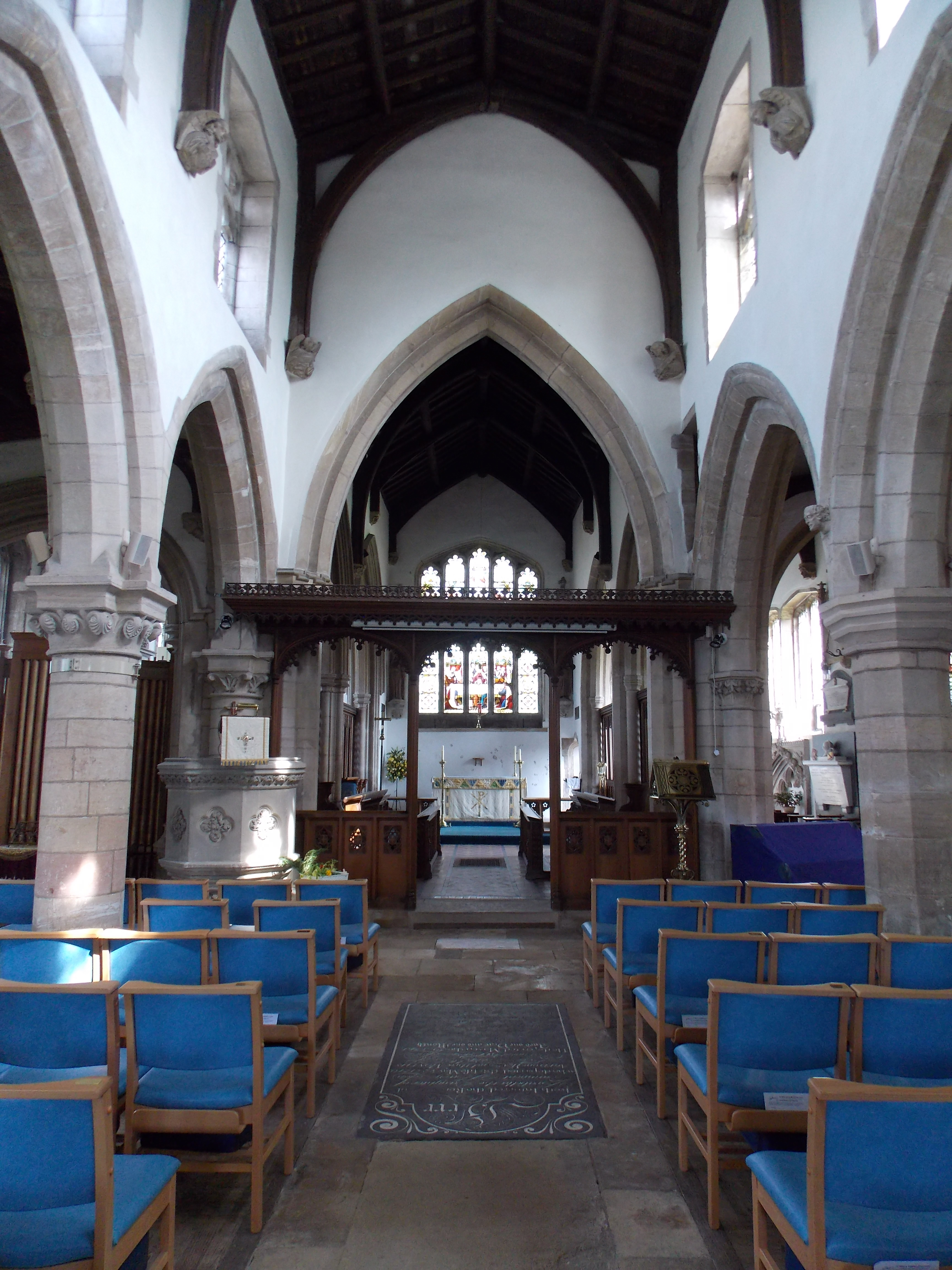 Harlaxton St Mary and St Peter's Church – view through Nave to Chancel